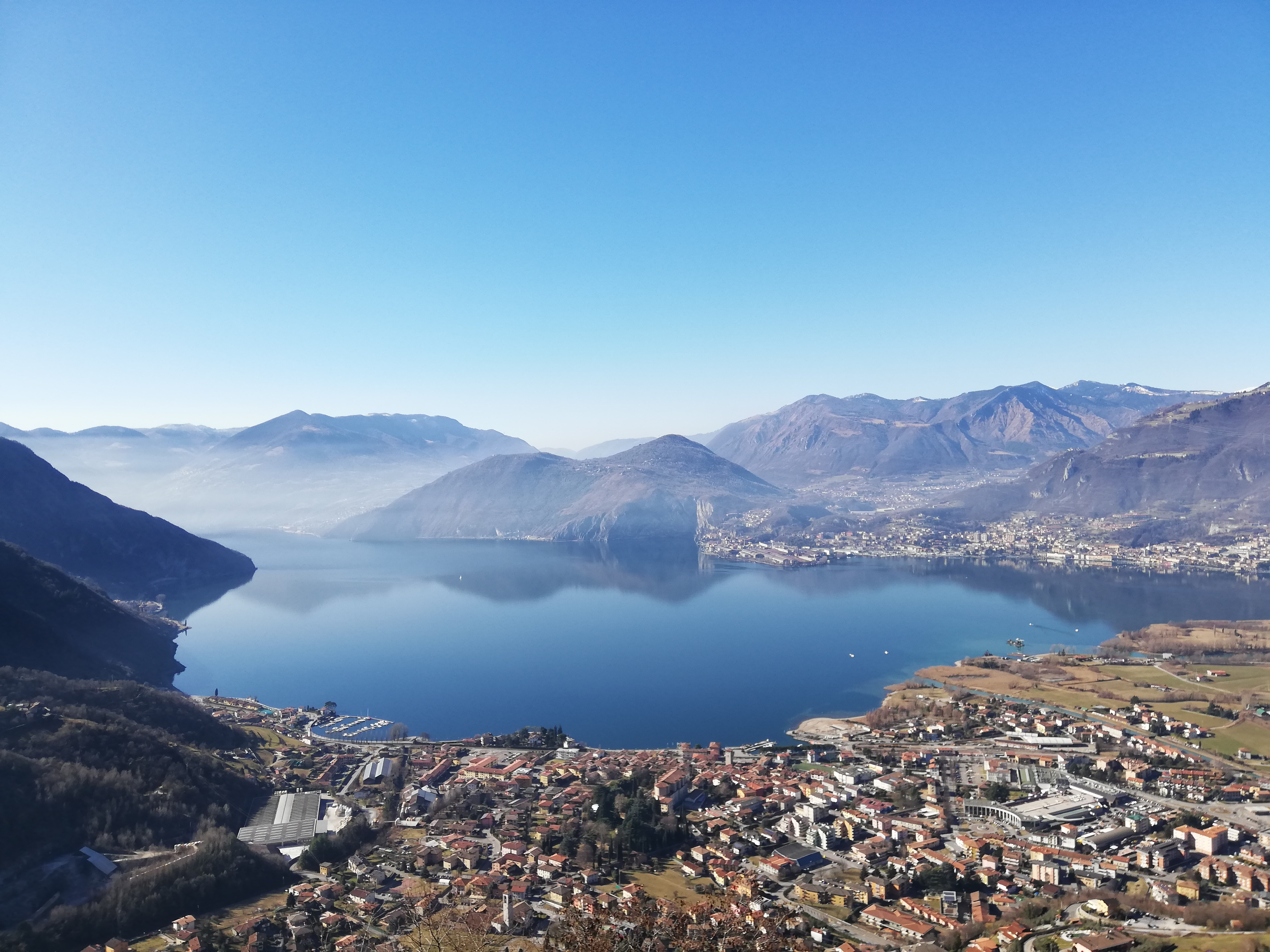 This photo has been taken in the country: Italy